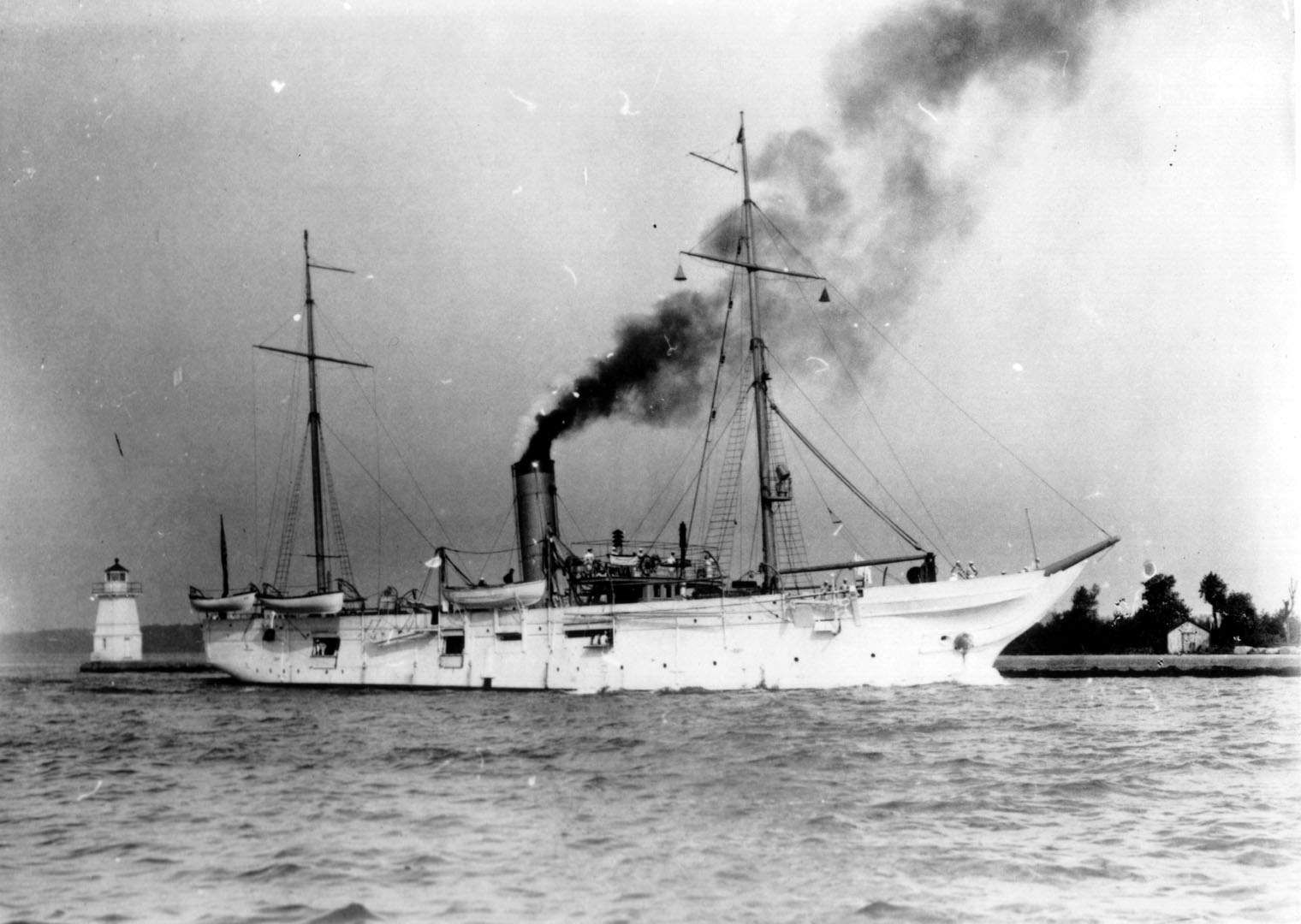 Photographed during the Perry Centennial Naval Parade, 1913, Possibly at Erie, PA. She was Ohio Naval Militia training ship at that time. (Description from Washington Naval Yard Library photo archives)